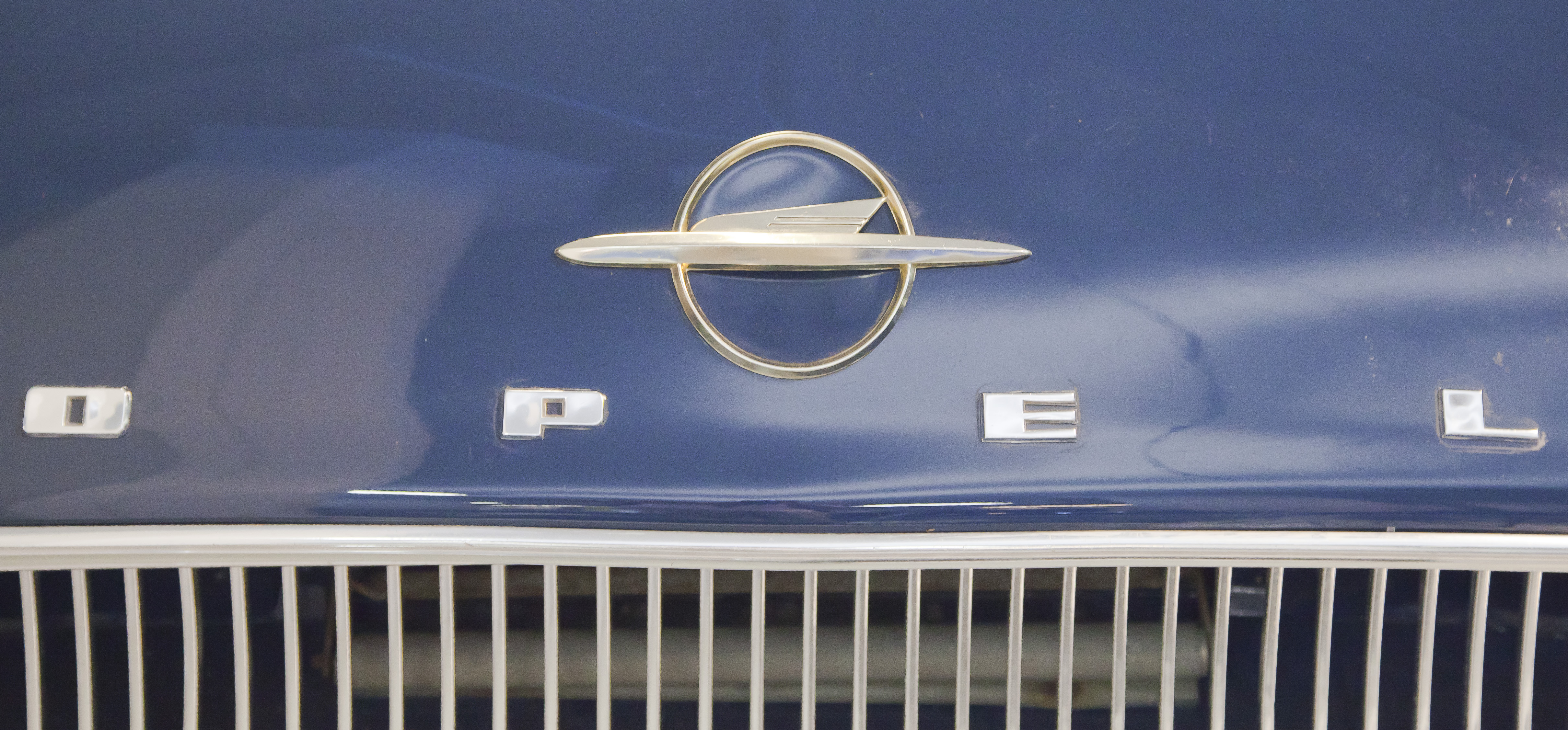 Opel Record of 1959, Helsinki, Finnland